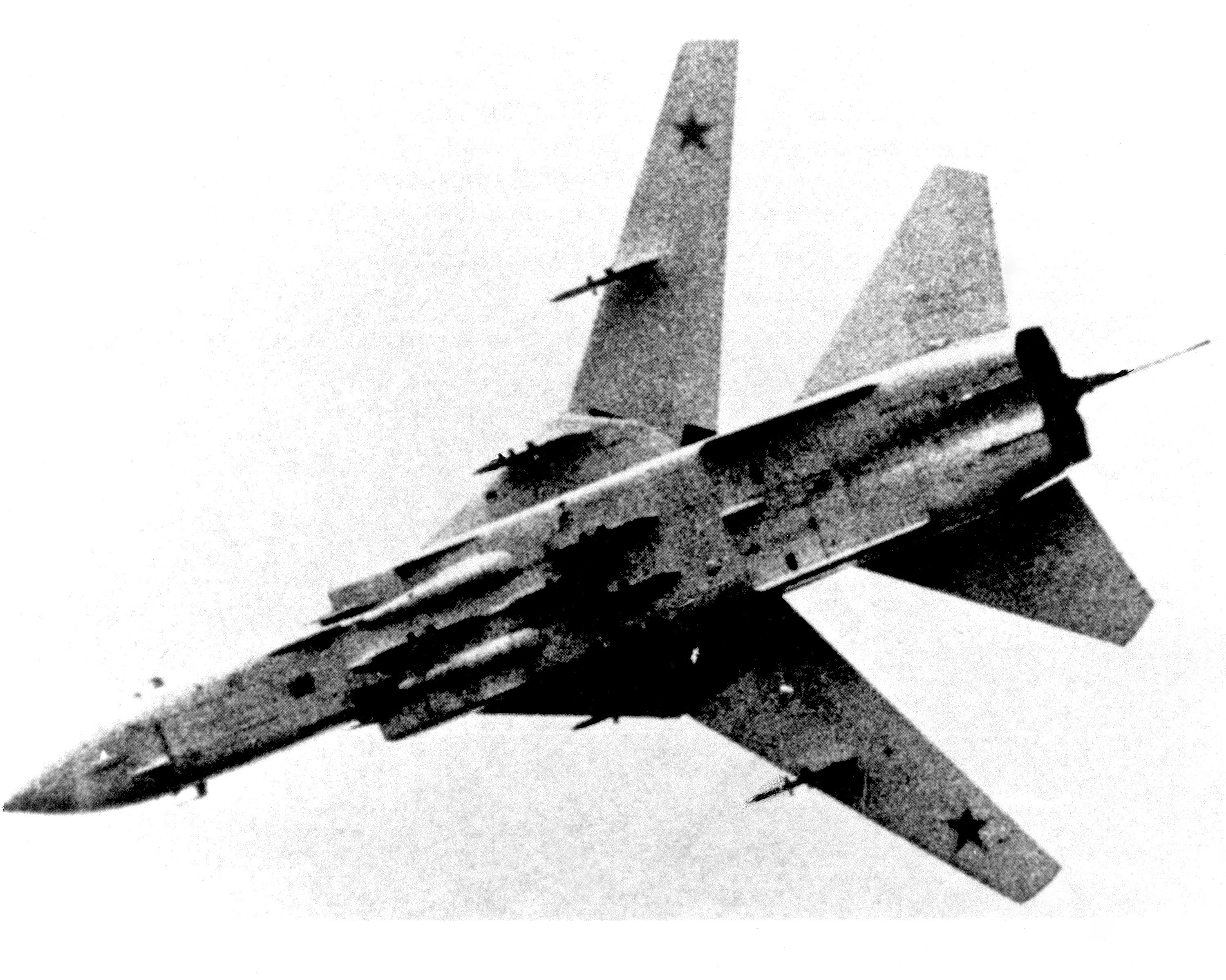 An underside view of a Soviet Su-24 Fencer aircraft.